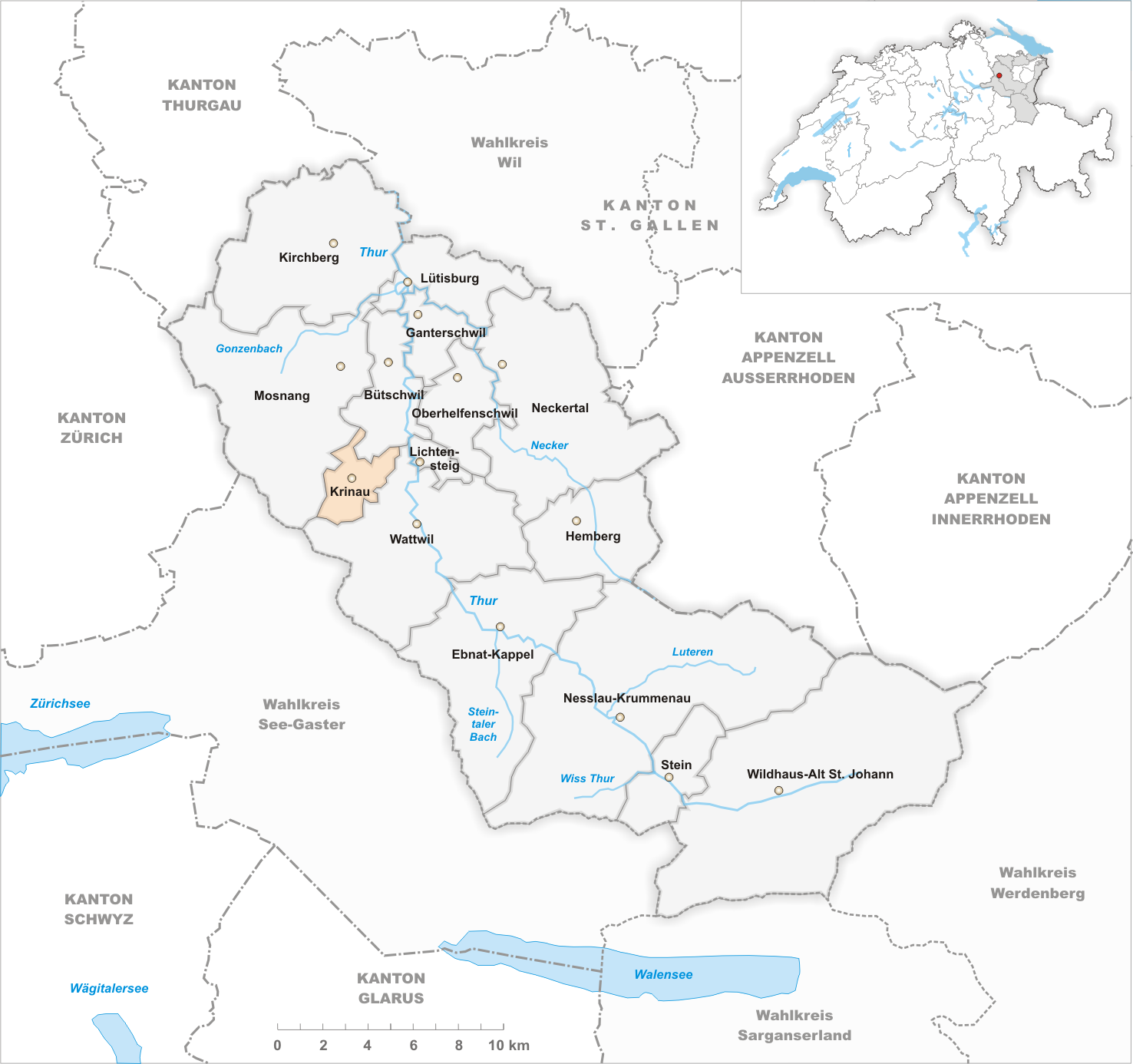 Municipality Krinau